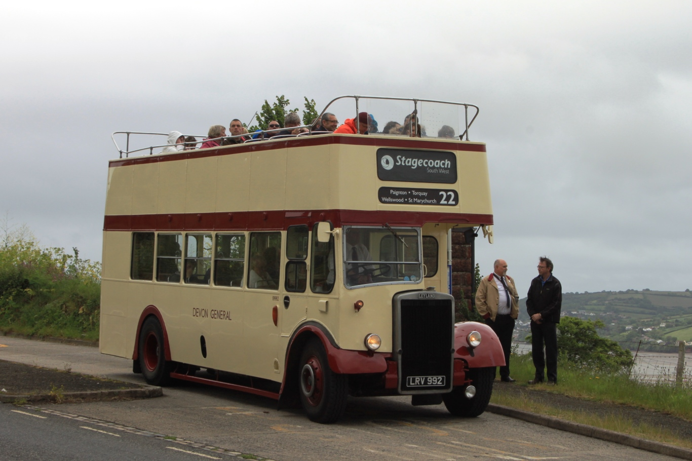 Stagecoach's vintage Leyland Titan 19992 (registration LRV992) takes a break from its usual summer services in Torbay and instead finds a viewpoint above the River Teign at Bishopsteignton. It is operating trips from Teignmouth today as part of the town's heritage transport festival.